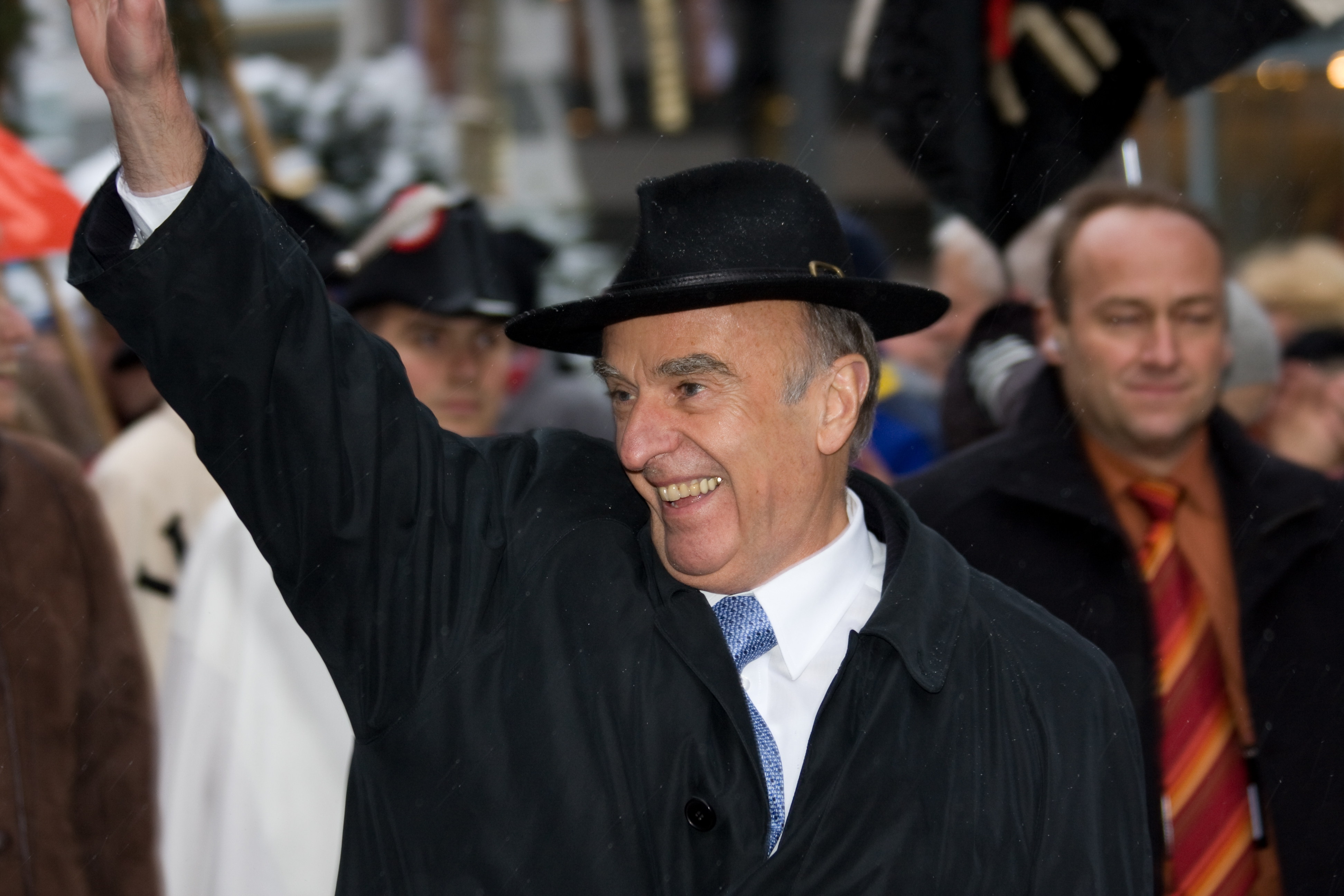 Hans-Rudolf Merz, Member of the Swiss Federal Council, on a parade in his hometown Herisau AR.